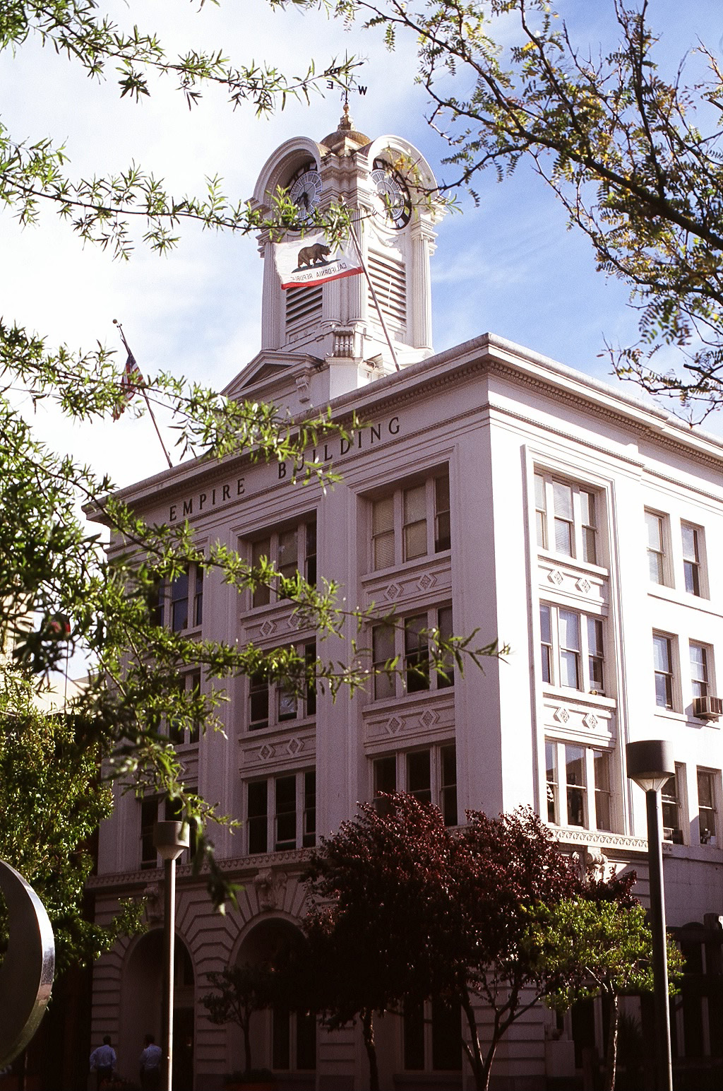 The Empire Building in Downtown Santa Rosa, California. Built after the 1906 earthquake, it was completed in 1910.